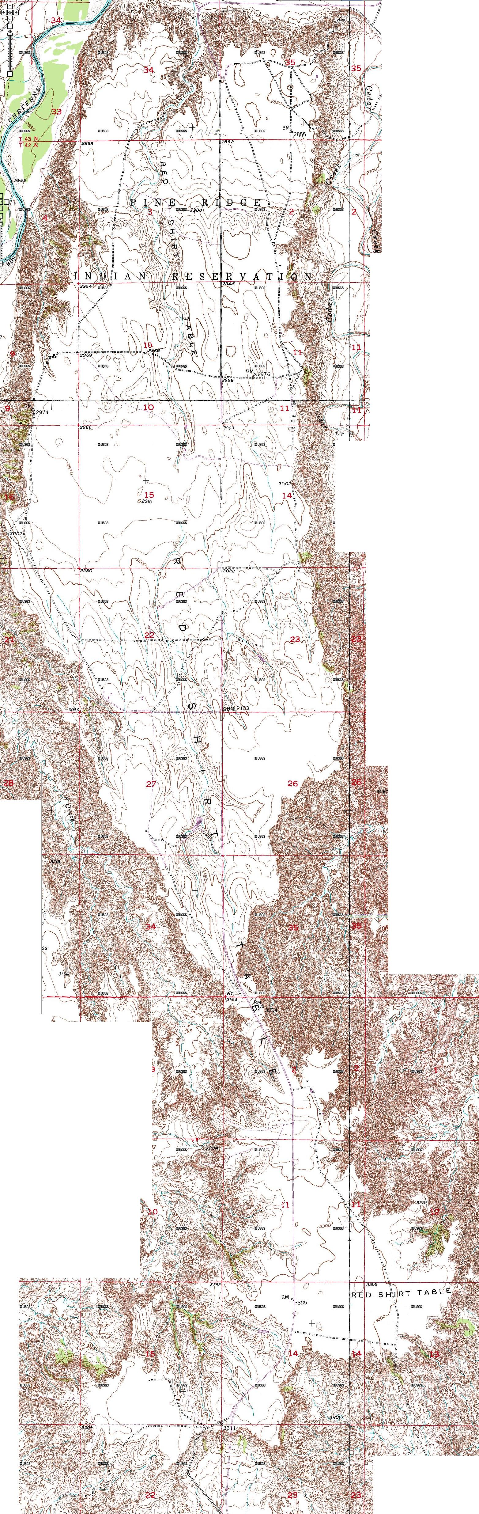 Topographic outline of Red Shirt Table, in the Badlands of South Dakota